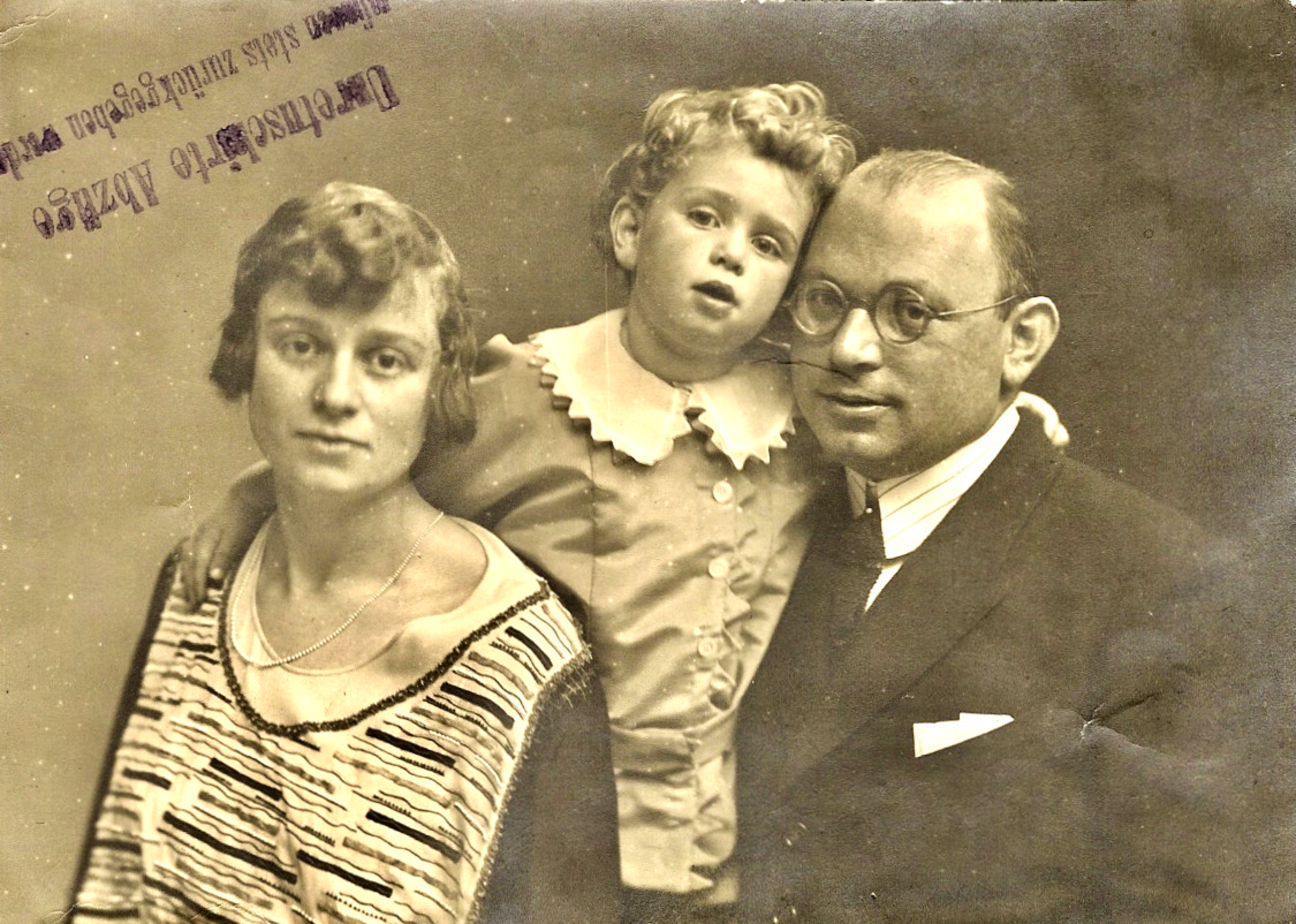 from the left: Else (1894–1986), nee Magnus, her son Gerhard Franz Philipp (Gerald Francis, 1920—2013) and her husband Anton Bamberger (1886–1950)